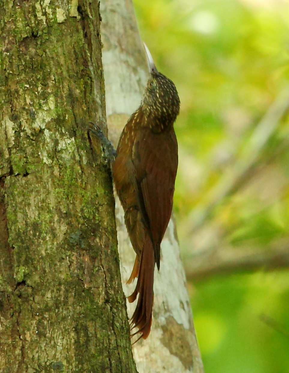 Zimmer's Woodcreeper at Iranduba - AM - Brazil